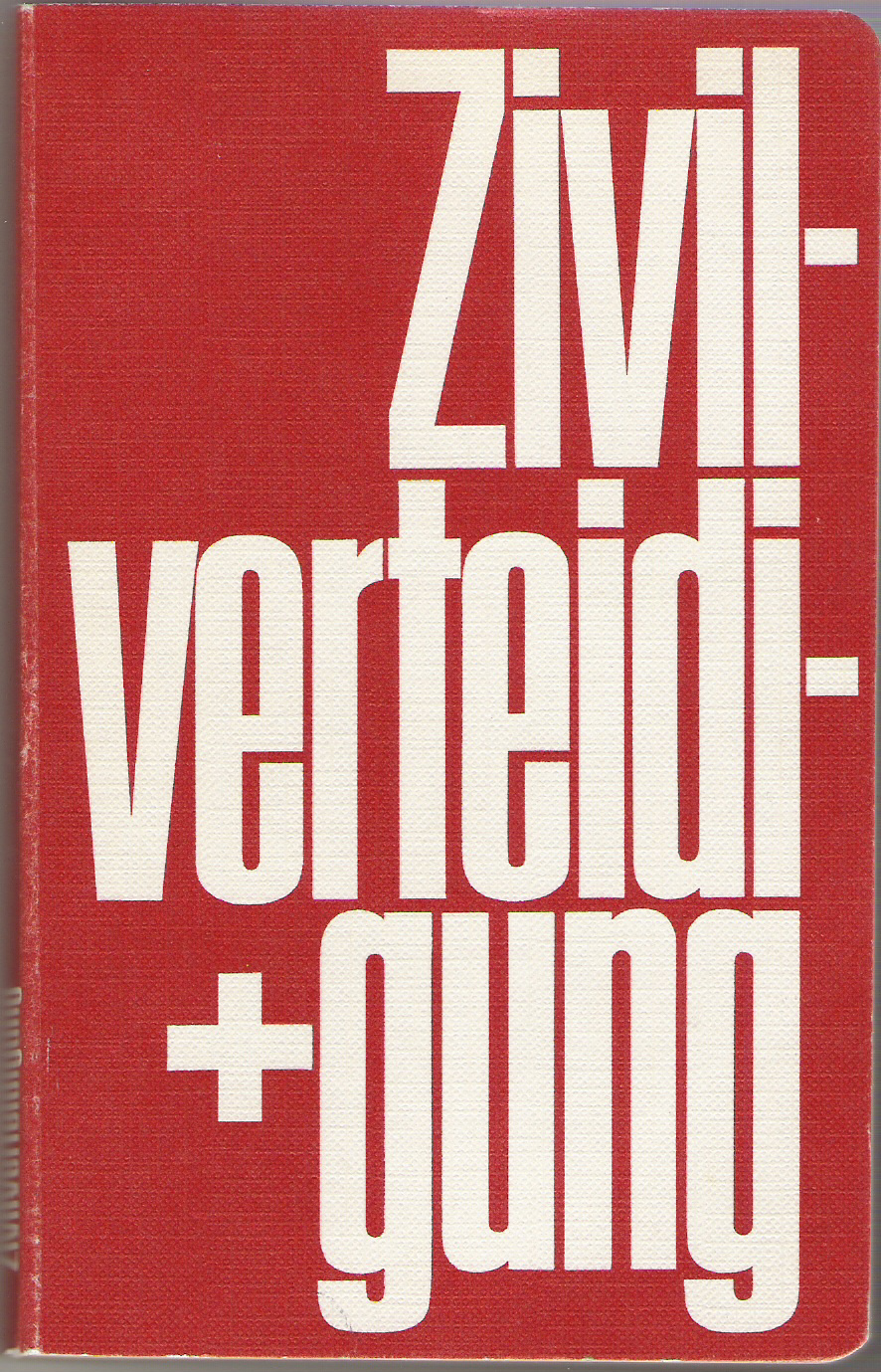 Civil defense book, Switzerland.